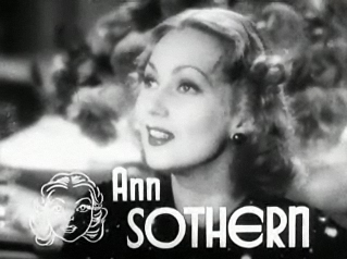 Cropped screenshot of Ann Sothern in the trailer for the film Dangerous Number